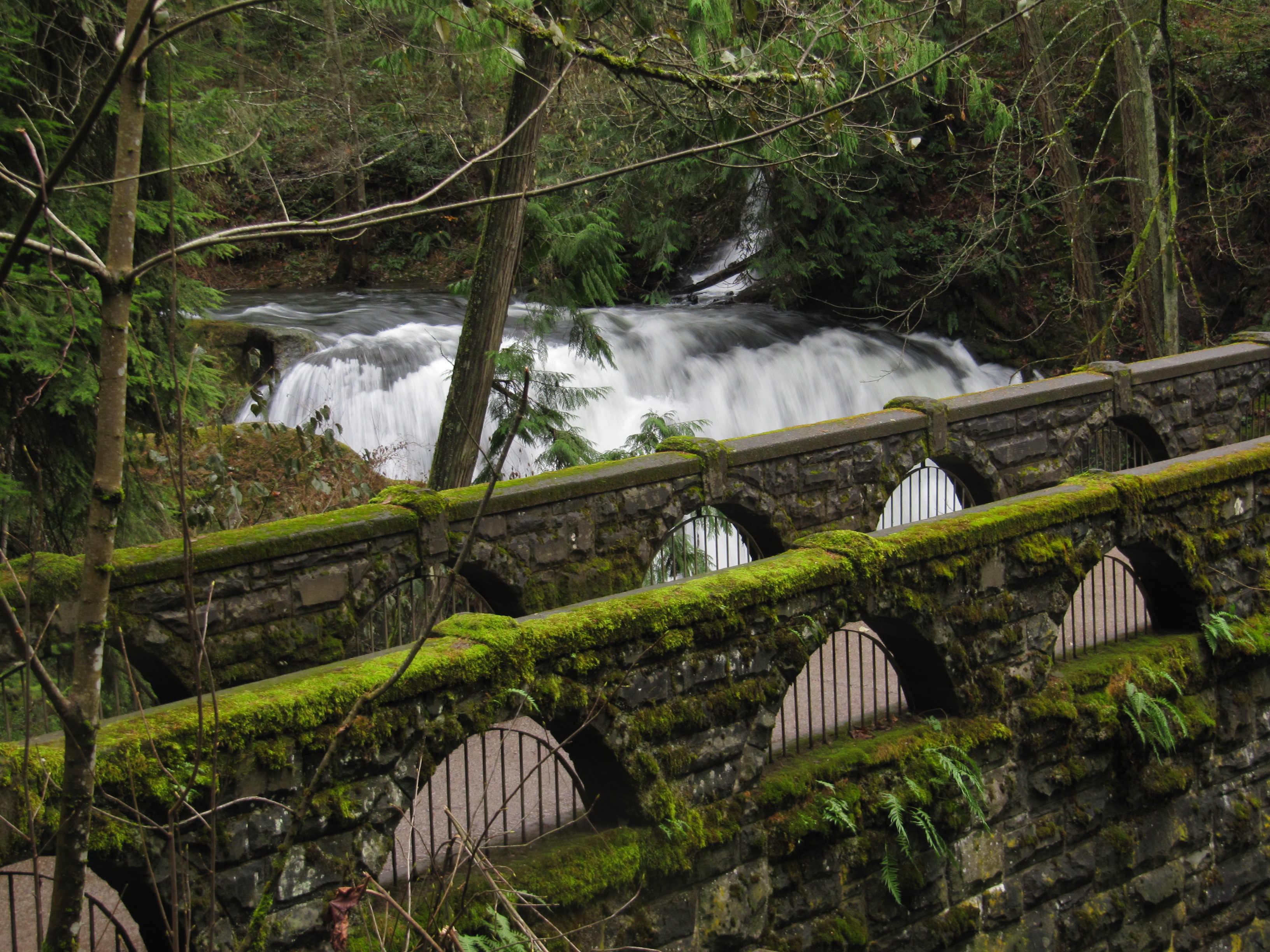 Whatcom Falls Park, Bellingham, Wash. The bridge is so old it has moss and ferns growing on it, making it blend in with the forest.